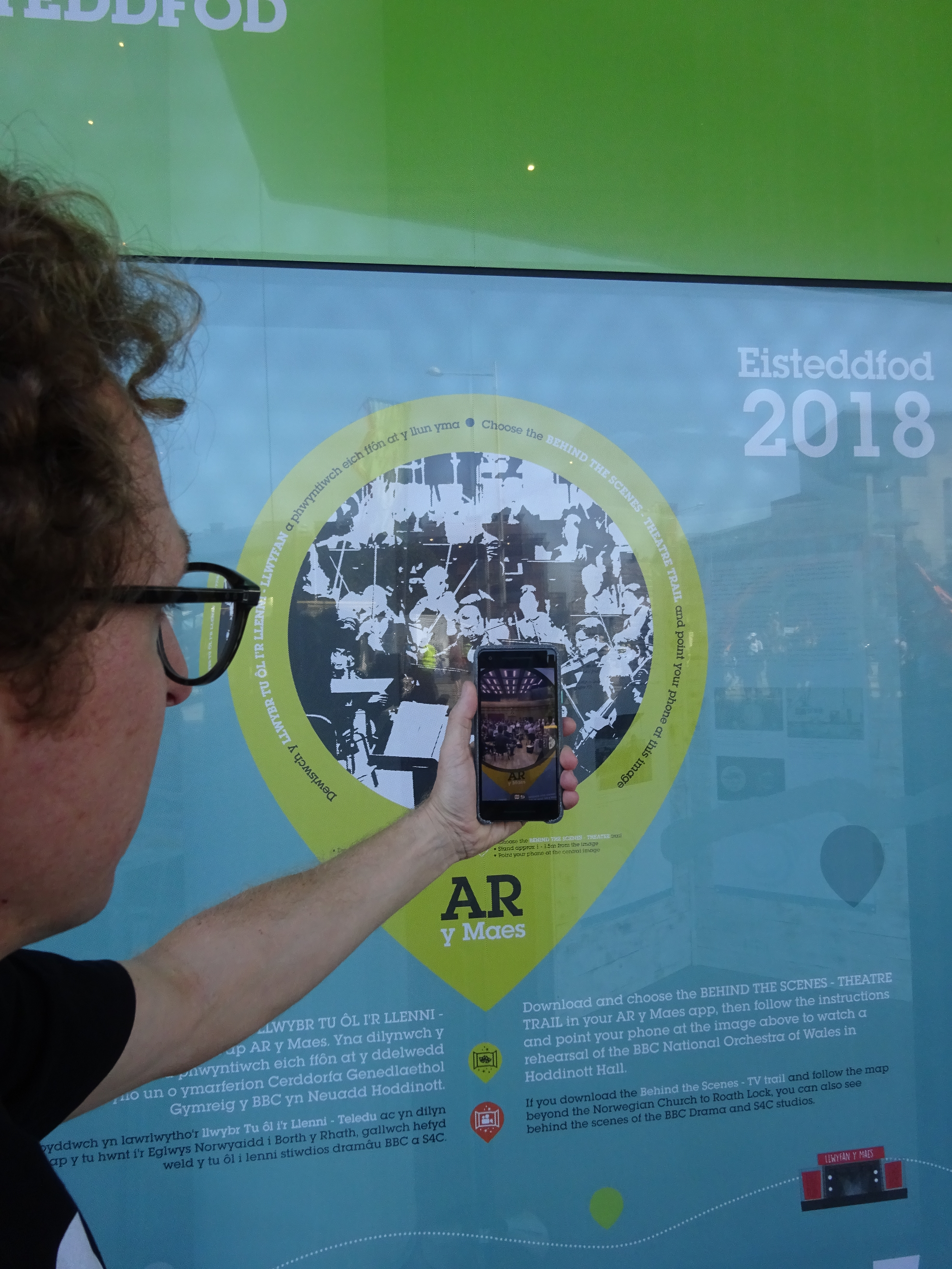 Dr Rhodri ap Dyfrig, blogger at the National Eisteddfod, Cardiff, Wales. Online Content Commissioner at S4C. AR app onshowing what happens insde that part of the Millenium Centre, Caerdydd / Cardiff.